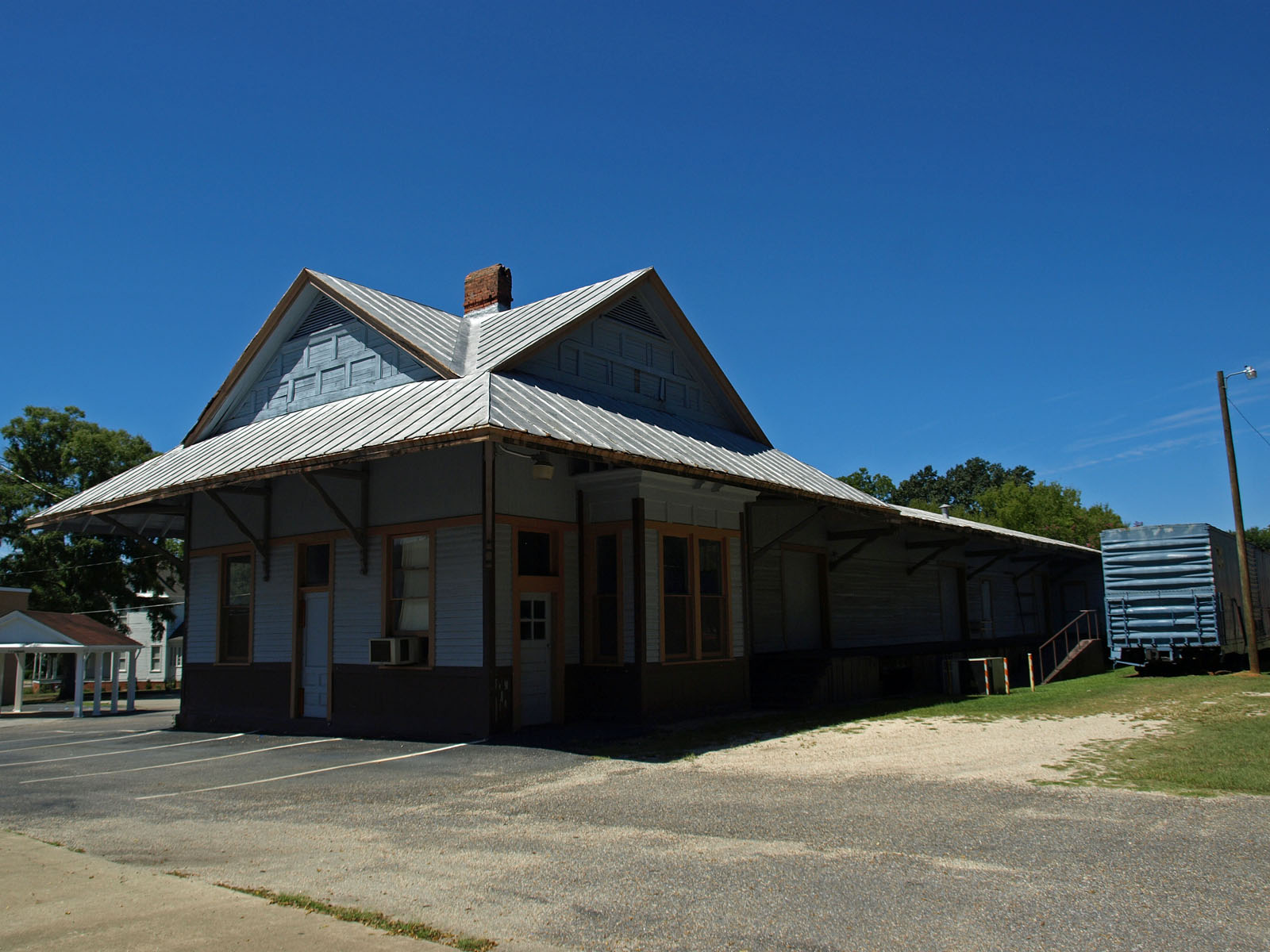 The old Wetumpka L&N Depot in Wetumpka, Alabama